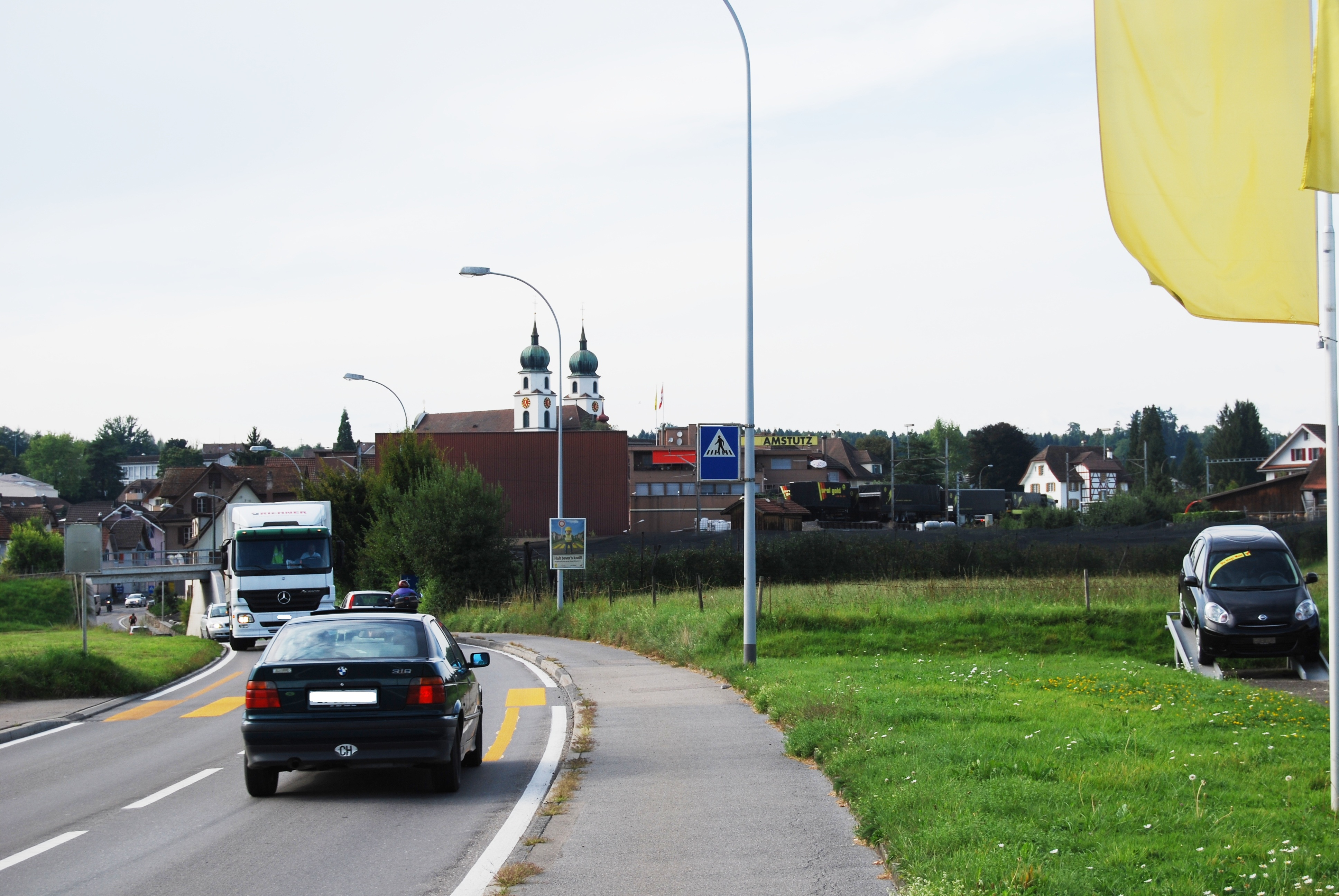 Eschenbach, canton of Lucerne, SwitzerlandEsperanto: Eschenbach, Kantono Lucerno, Svislando